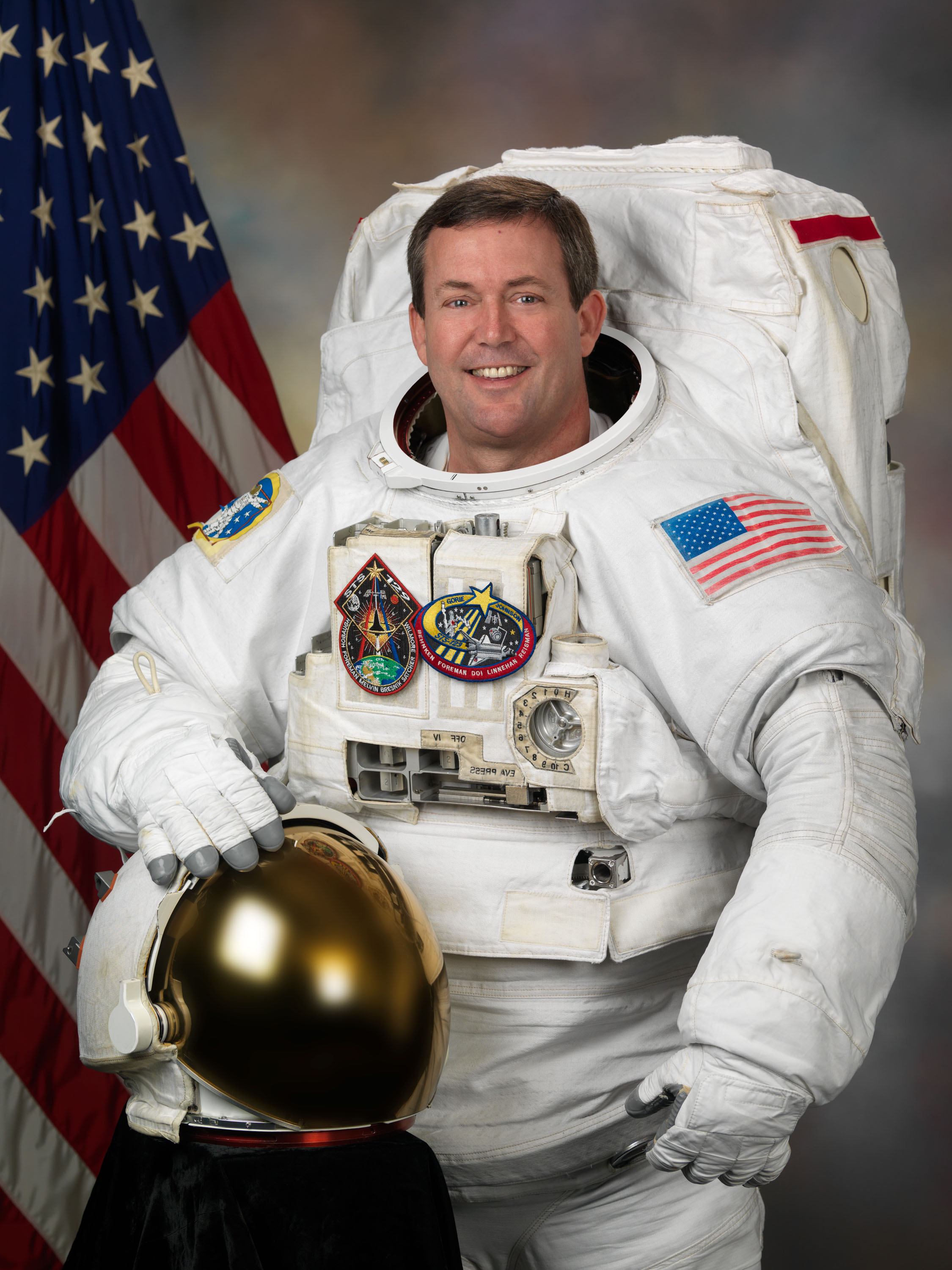 Astronaut Michael J. Foreman, mission specialist